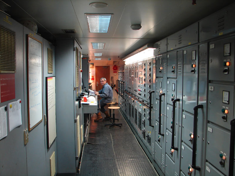 Engine control room onboard the dredge Samuel De Champlain.